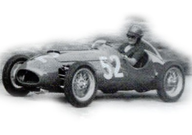 Bandini formula 3 driver ilario bandini Forlì 1954 picture by Bandini book